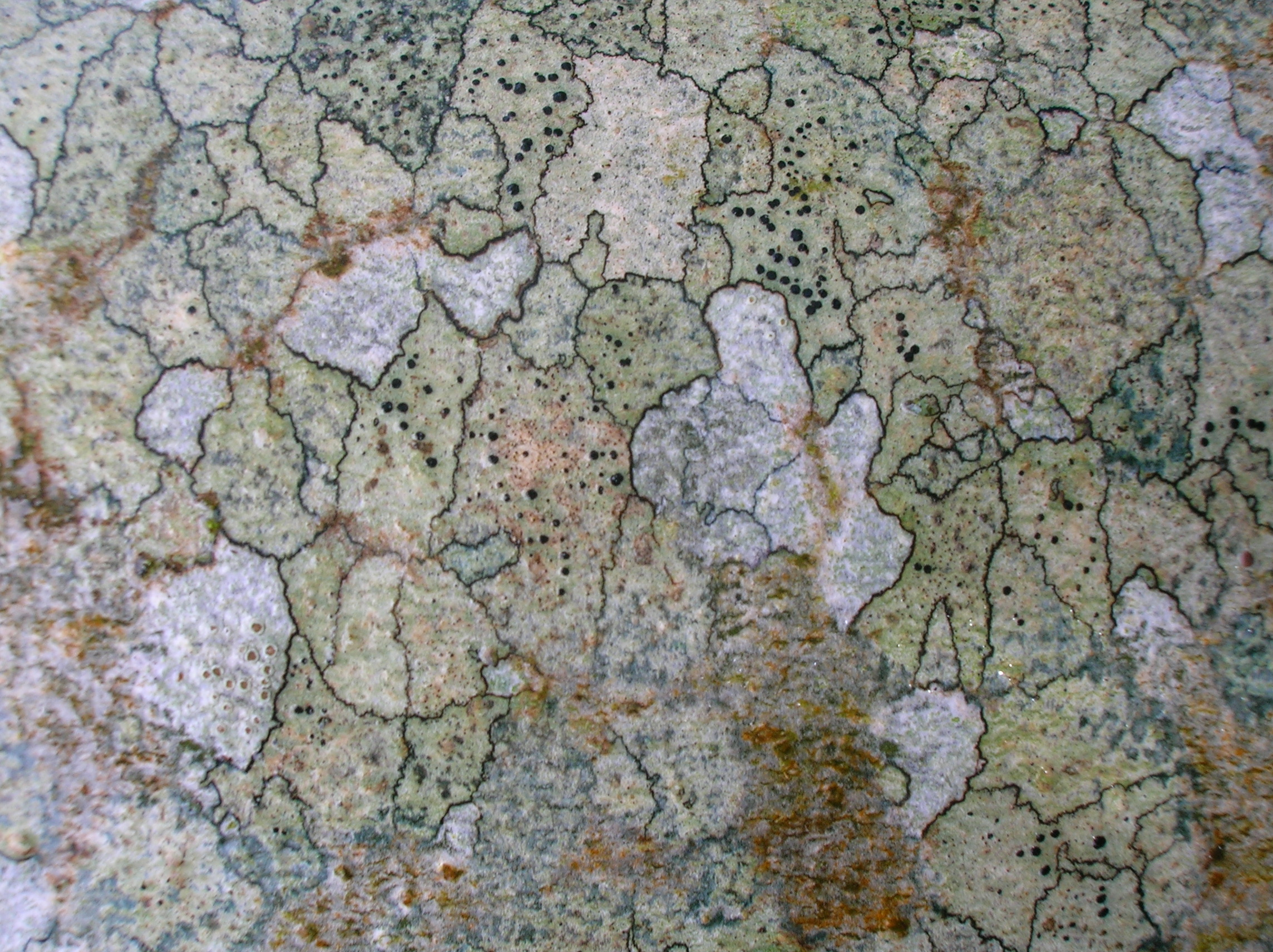 Lichen on Ash Tree bark, North Ayrshire, Scotland.